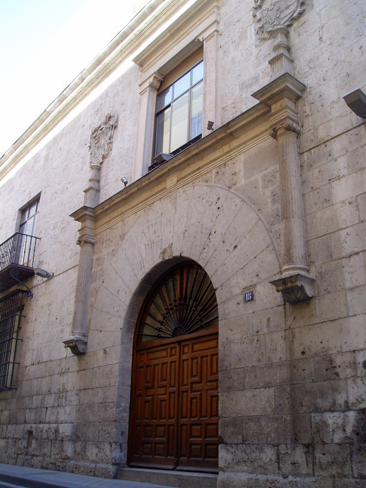 Renaissance front of the palace of the Escudero-Herrera family in the street Fray Luis de León, Valladolid.